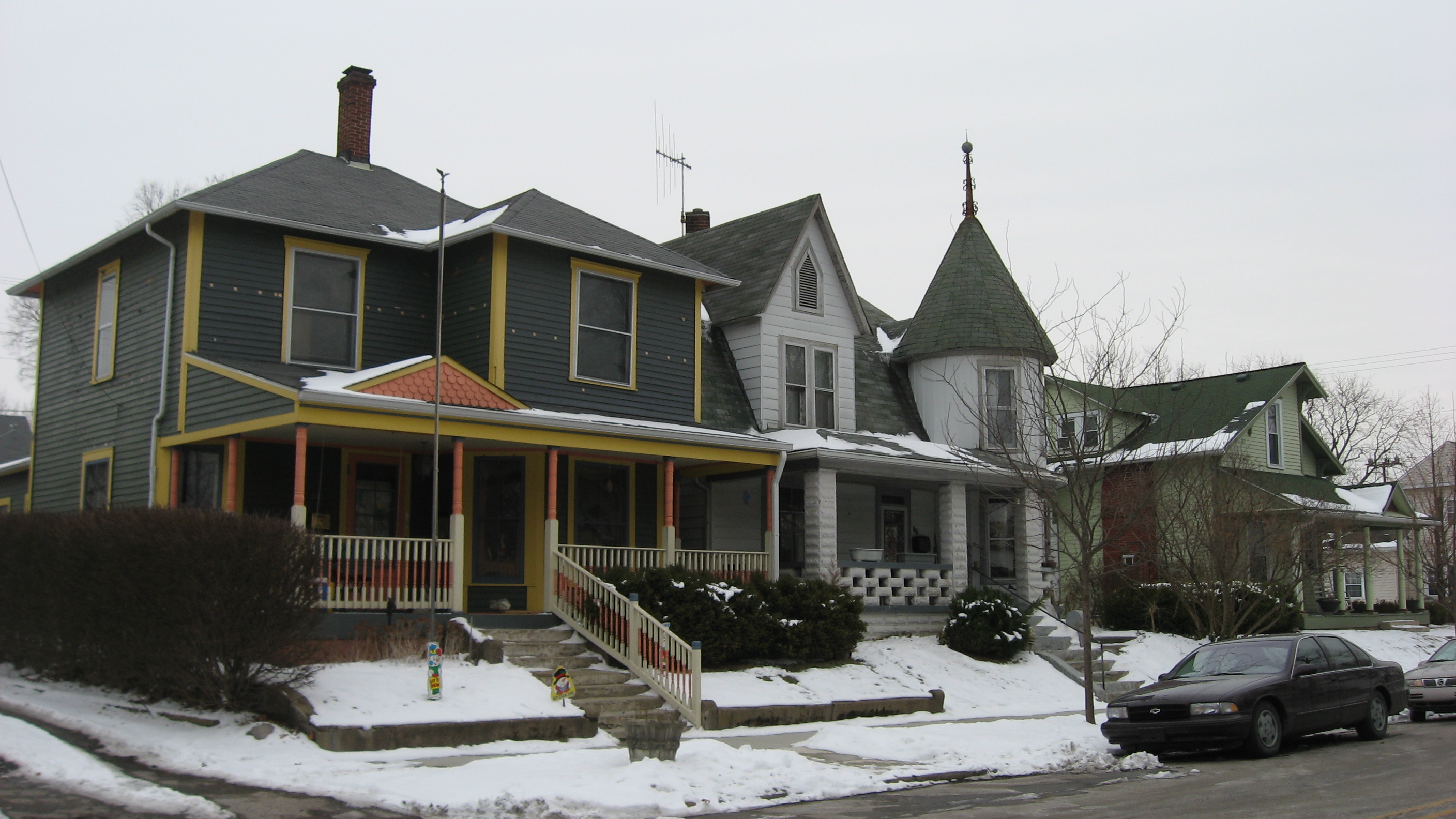 Houses on the eastern side of the 400 block of N. Ninth Street in Noblesville, Indiana, United States. This block is part of the Catherine Street Historic District, a historic district that is listed on the National Register of Historic Places.